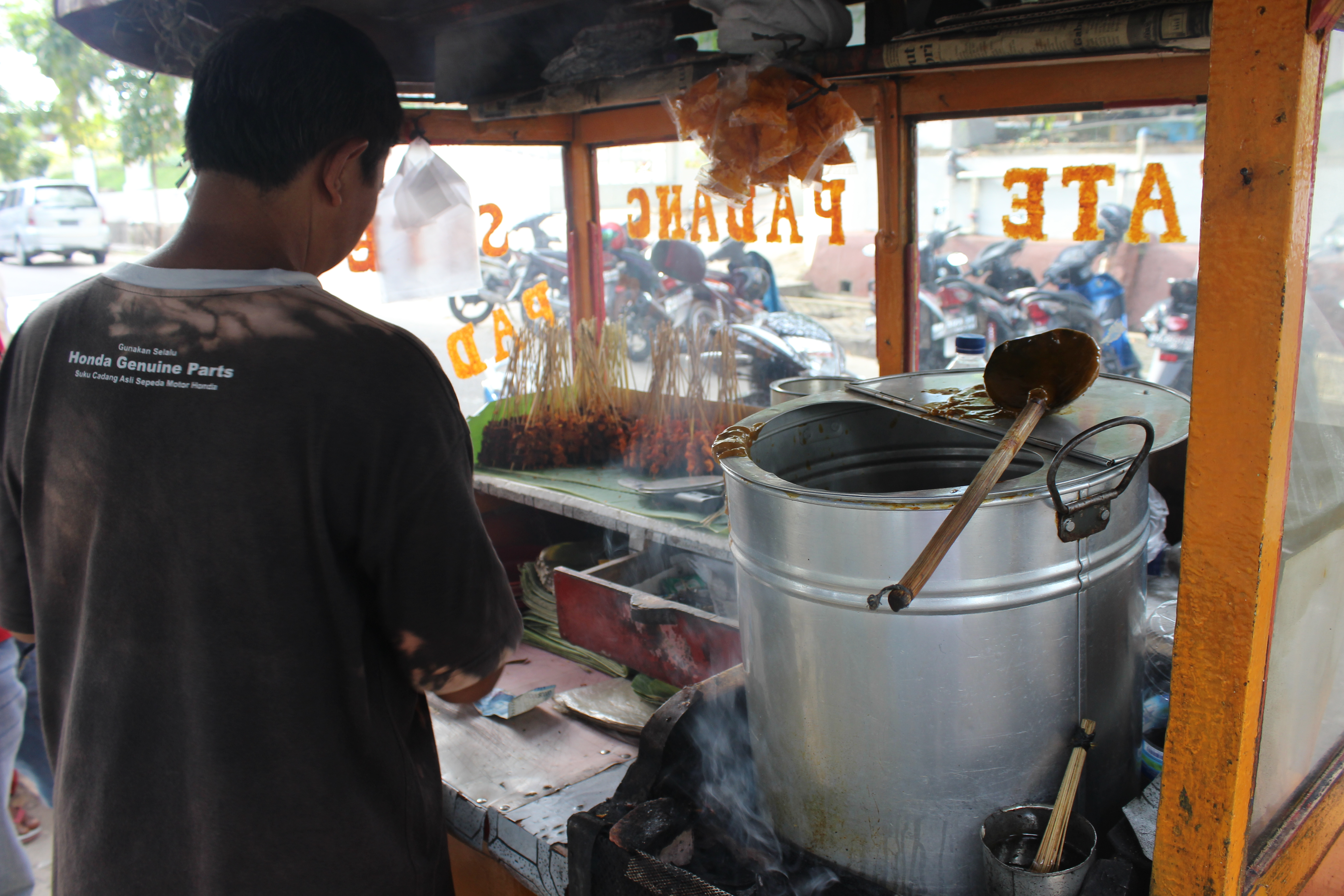 Sate Padang vendor in city park, Pekanbaru, Indonesia.